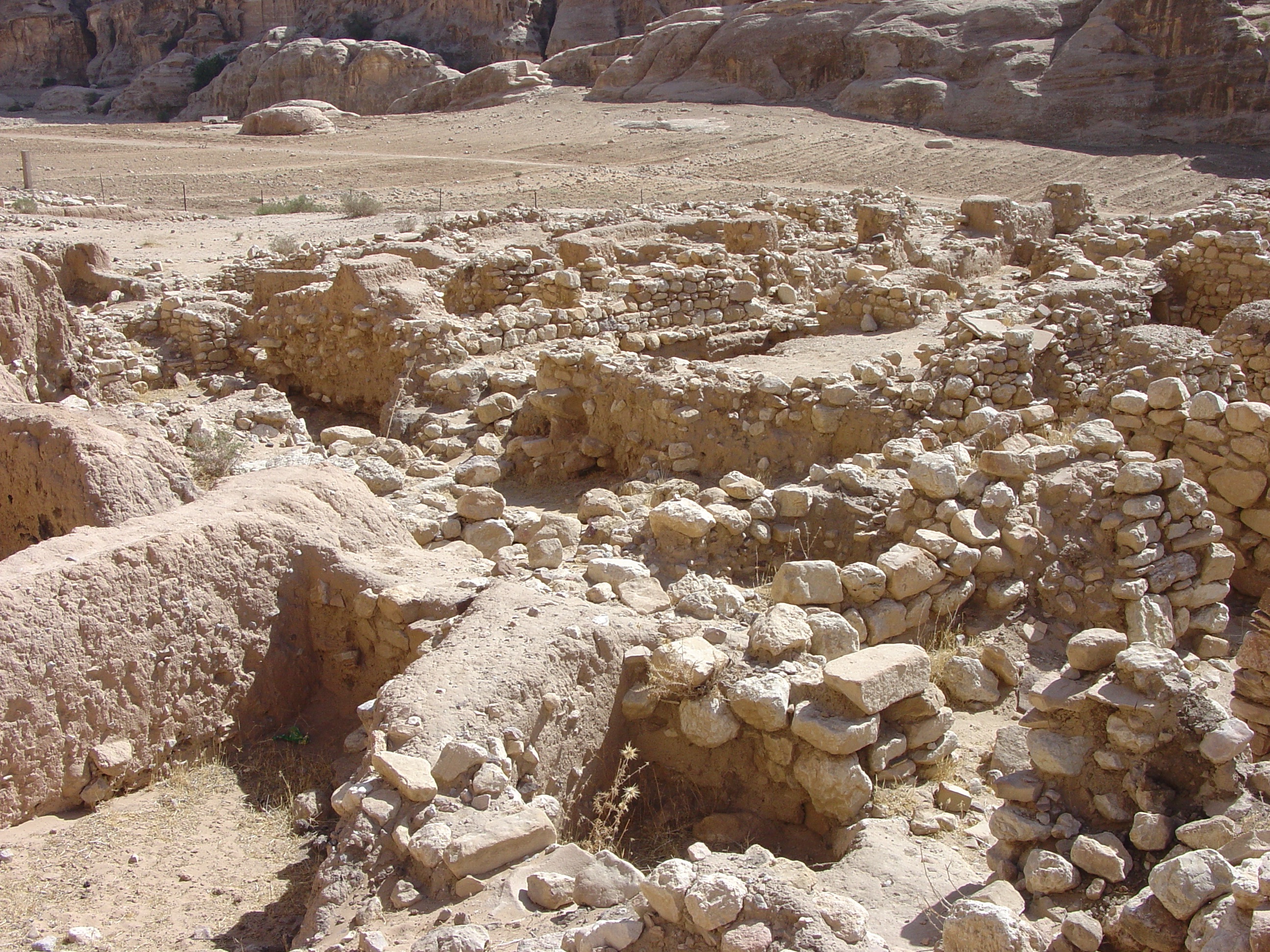 Neolithic Settlement Beidha, Jordan The Pre-Pottery Neolithic village of Beidha (pronounced BAY-da) was occupied from 7200 BC to 6500 BC, in the first half of Pre-Pottery Neolithic B. The early settlers built a retaining wall around the village, and constructed round houses with floors sunk below ground level. Villagers cultivated barley and emmer, herded goats, and supplemented their diet by hunting wild animals and gathering nuts. Interestingly, no burials have been found on the site. Perhaps the deceased were buried away from the village, and their traces have subsequently disappeared by erosion into the wadi. Beidha is located just next to Siq al-Barid, a few kilometers north of Petra. The photo here looks southeast.